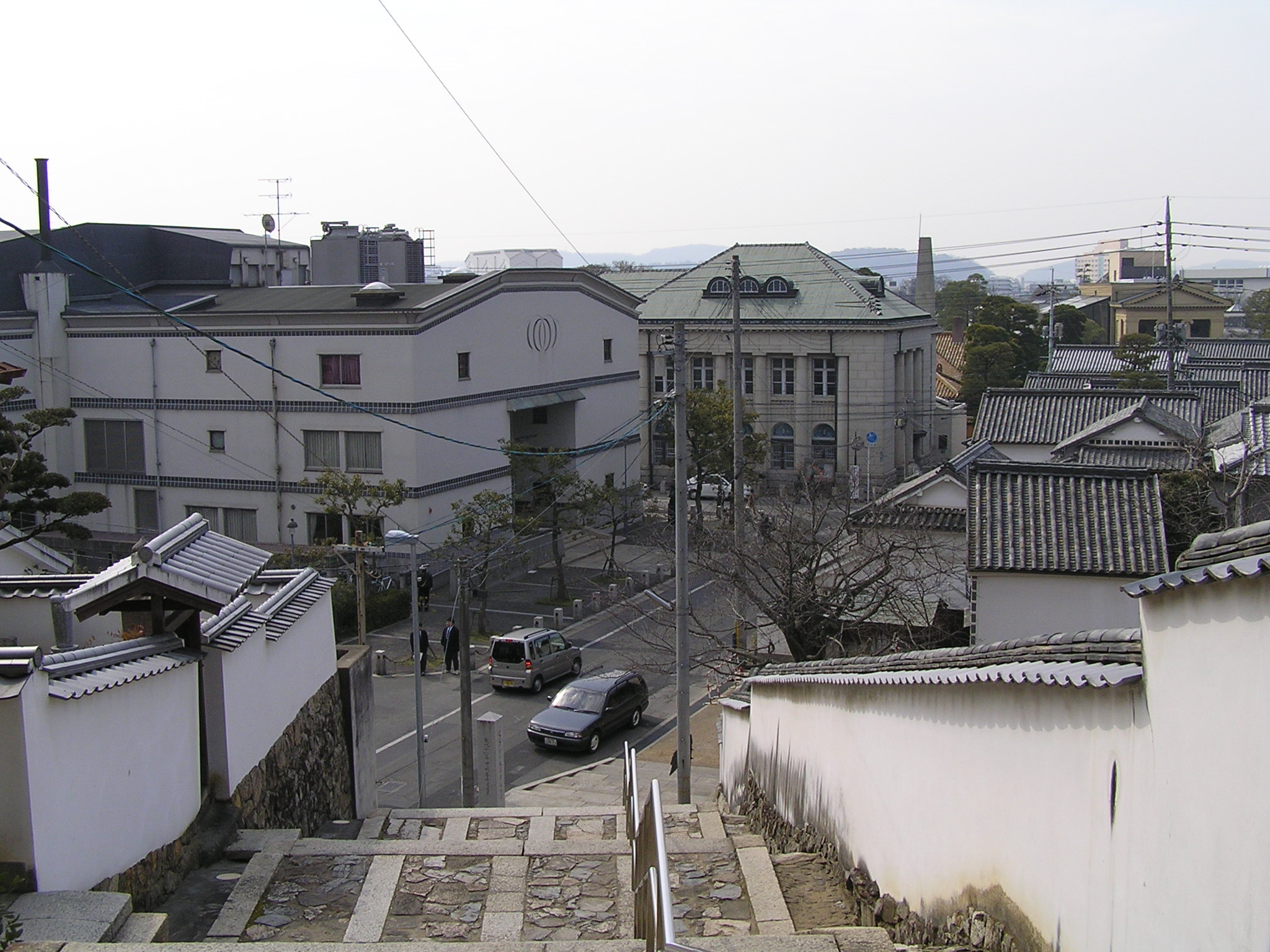 Kurashiki fine sight district seen from Turugata-yama